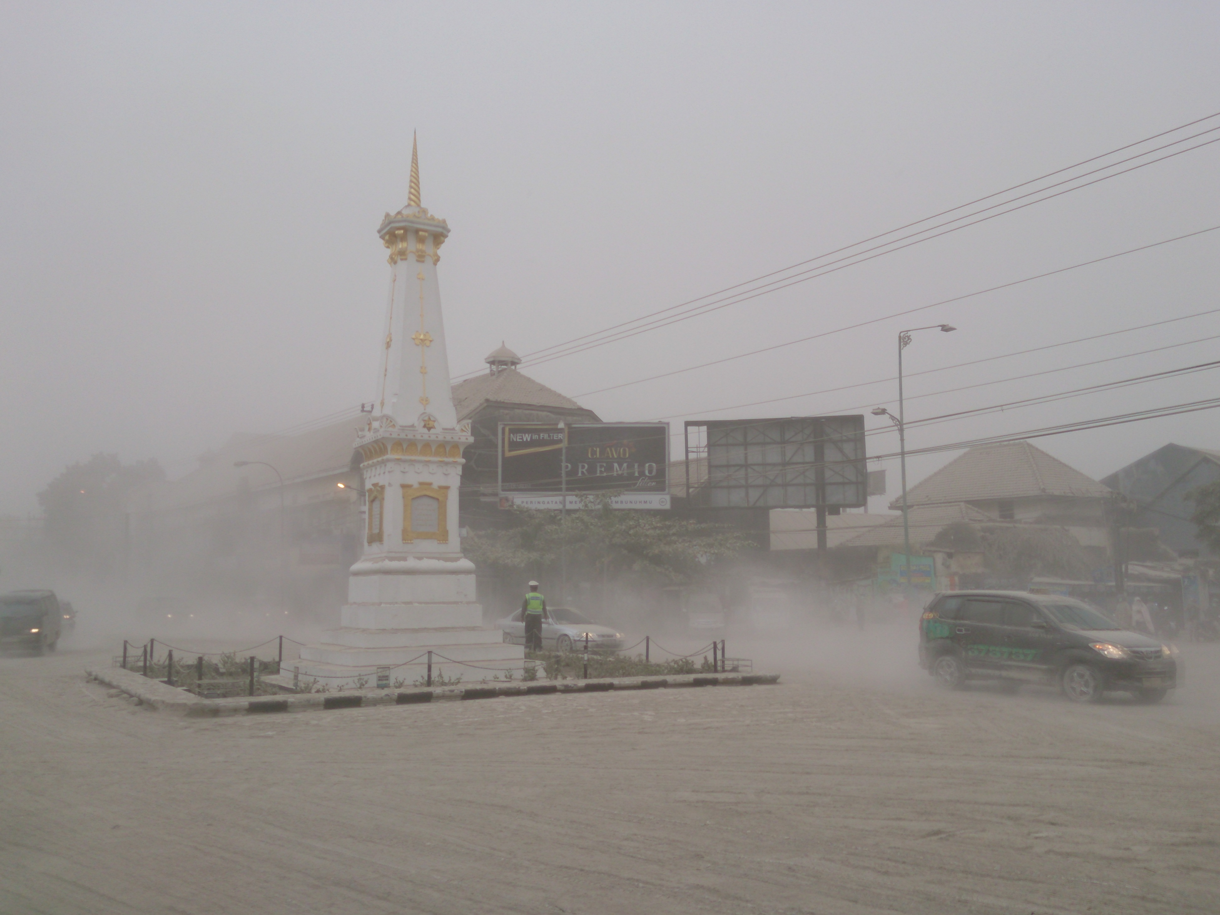 The city landmark covered with ashes, bad traffic control and poor visibility.